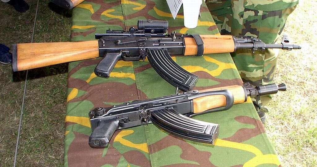 This is Yugoslavian Zastava M70B and Zastava M92